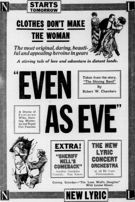 Newspaper ad for the American drama film Even as Eve (1920), on page 3 of the March 23, 1920 Duluth Herald.